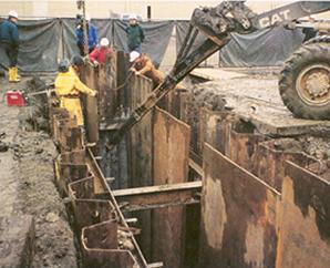 A picture taken during the installation of a PRB at Sunnyvale, CA